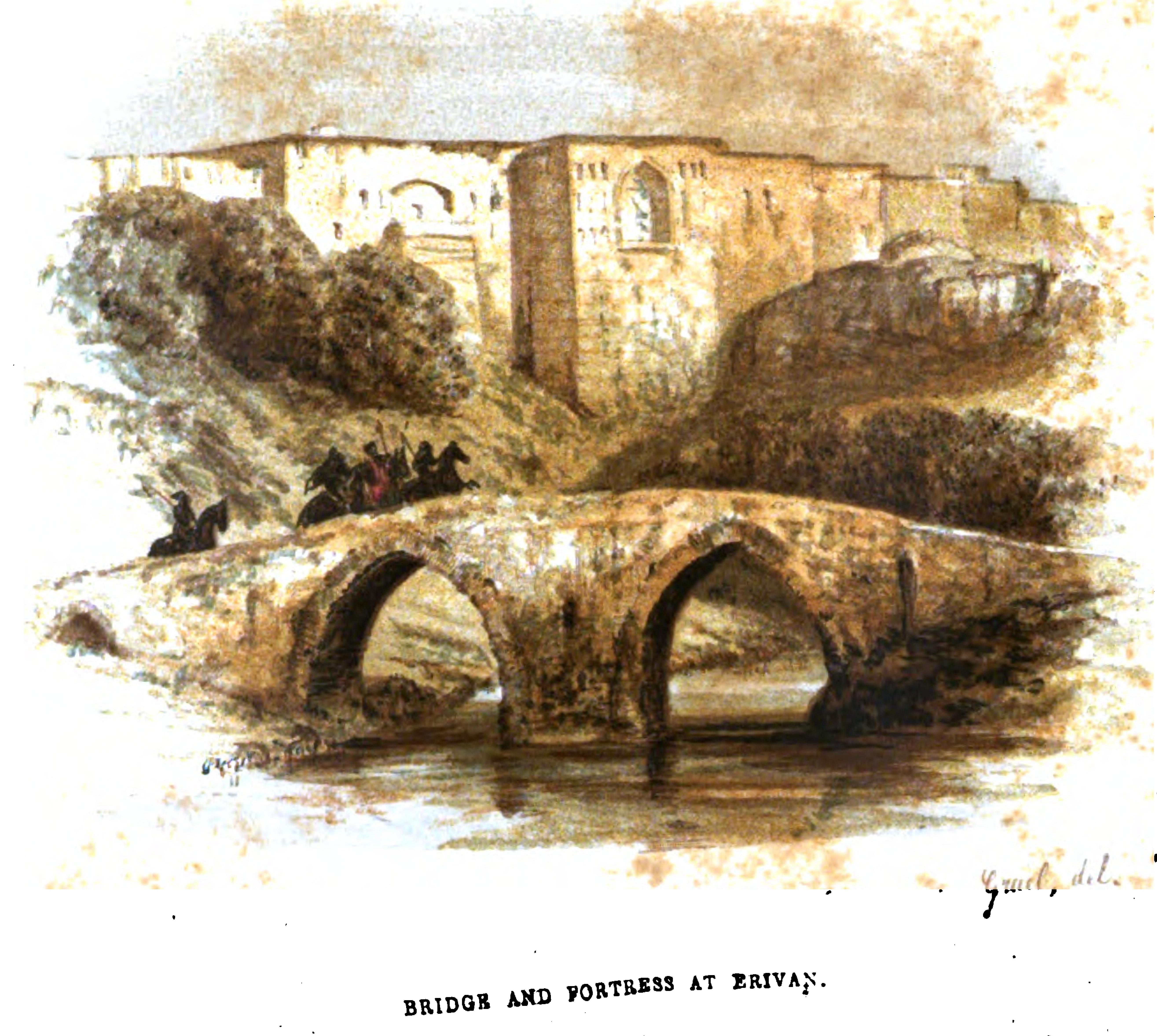 Transcaucasia: sketches of the nations and races between the Black Sea and the Caspian